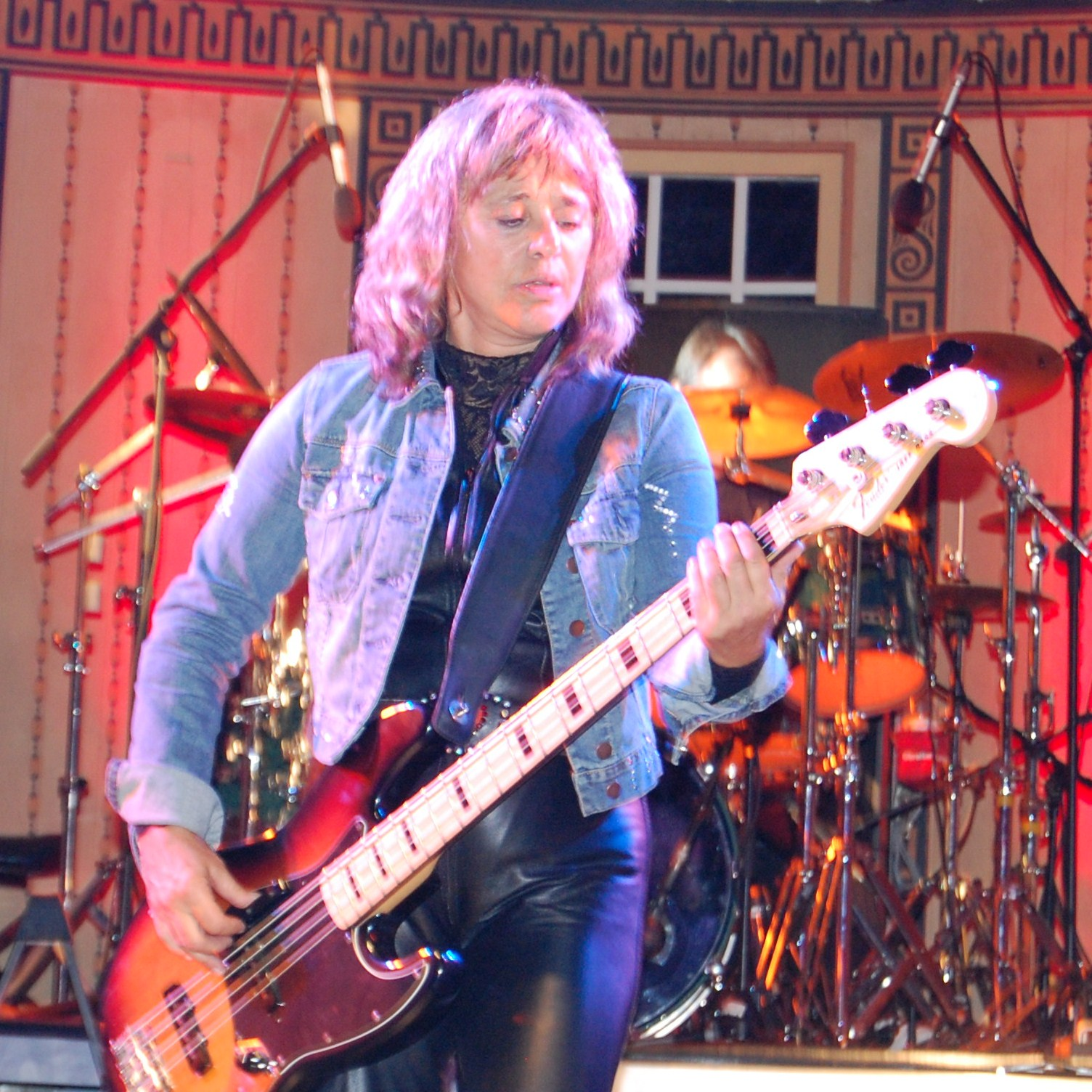 Suzi Quatro (2011) in Bad Kissingen (Germany)